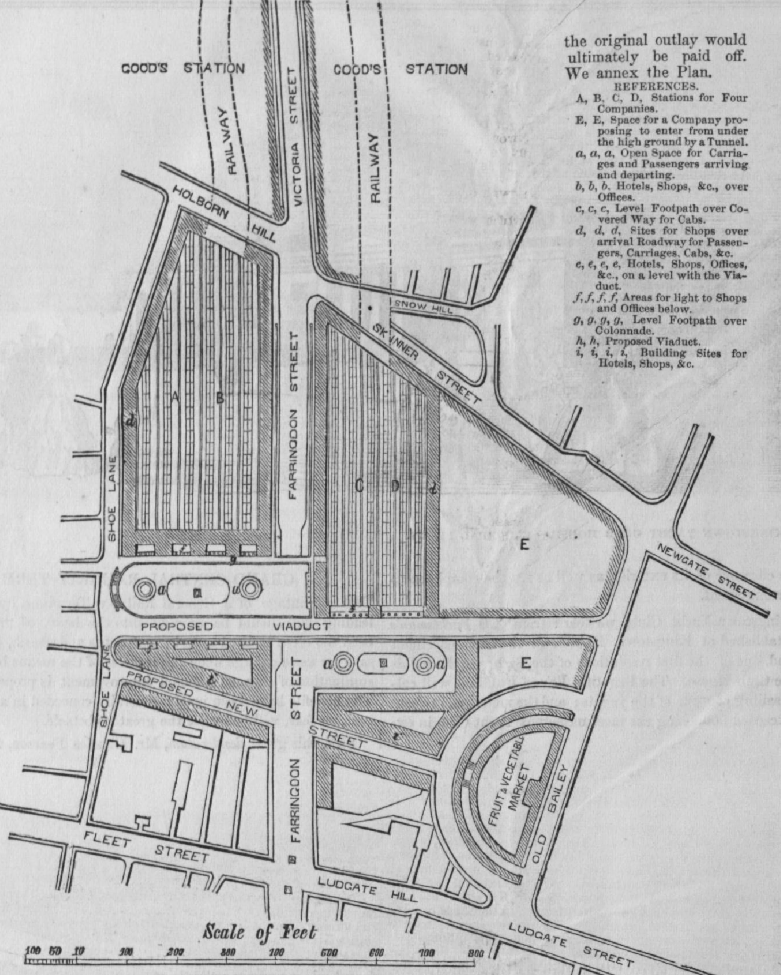 Proposal by Charles Pearson (1793-1862) for a central railway terminus for London. The illustration shows the planned layout of the station centred on Farringdon Street between Fleet Street and Holborn Hill, with capacity for four railway companies 'A', 'B', 'C' and 'D' and expansion space for one more, 'E'. The railway lines arrive from the north. Despite much lobbying from Pearson, the station was never constructed.